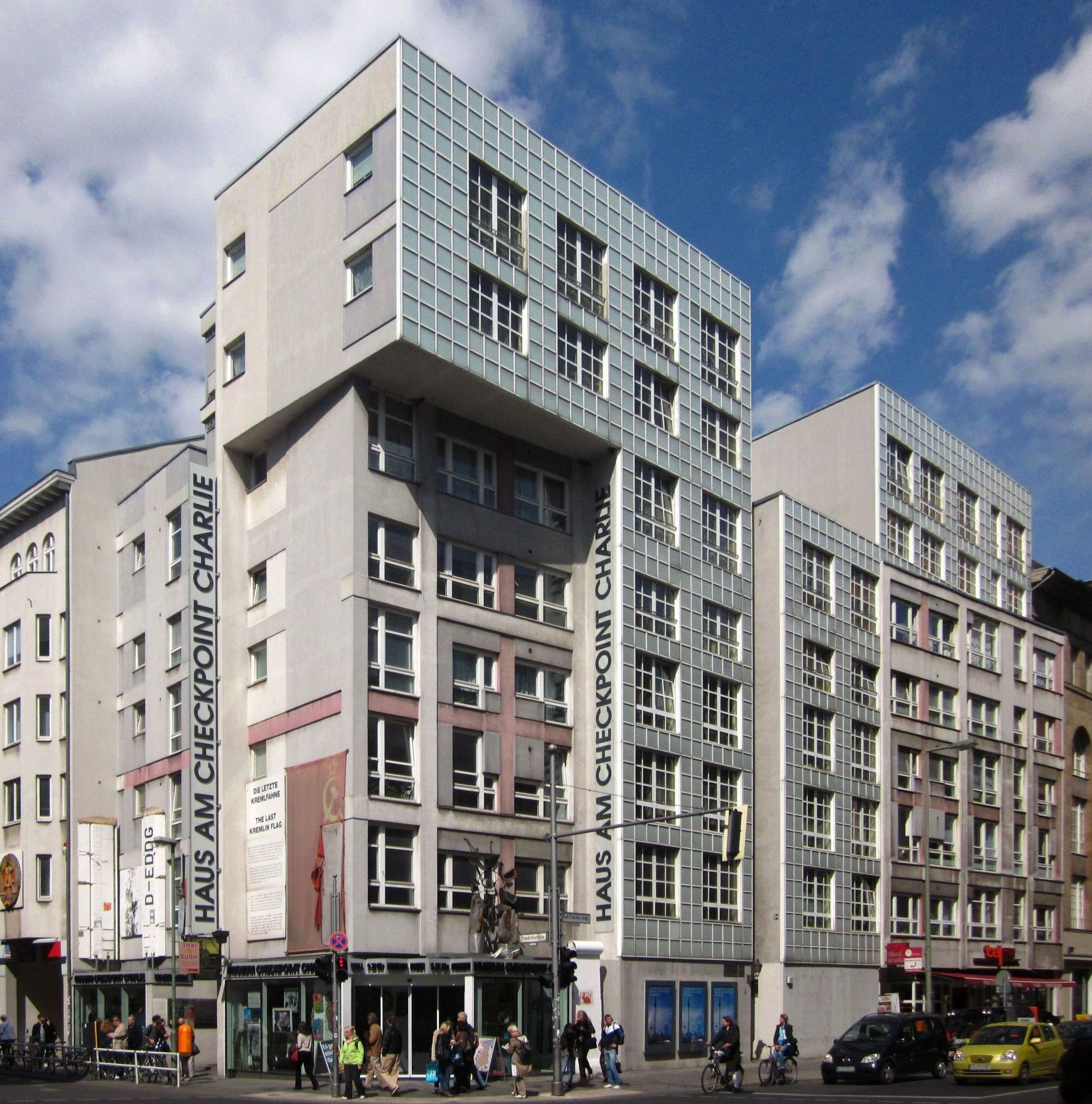 The House at Checkpoint Charlie at Friedrichstraße No. 43-44, corner of Rudi-Dutschke-Straße No. 28 (on the right), in Berlin-Kreuzberg. The complex consists of two parts: an old building at Friedrichstraße No. 44, which after 1963 was housing the Berlin Wall Museum, and the new building at the corner of Friedrichstraße and Rudi-Dutschke-Straße, which was built from 1985 to 1986 to a design by Peter Eisenman, a project of the International Building Exhibition 1984. It was originally a residential building, but is now used by the Berlin Wall Museum.